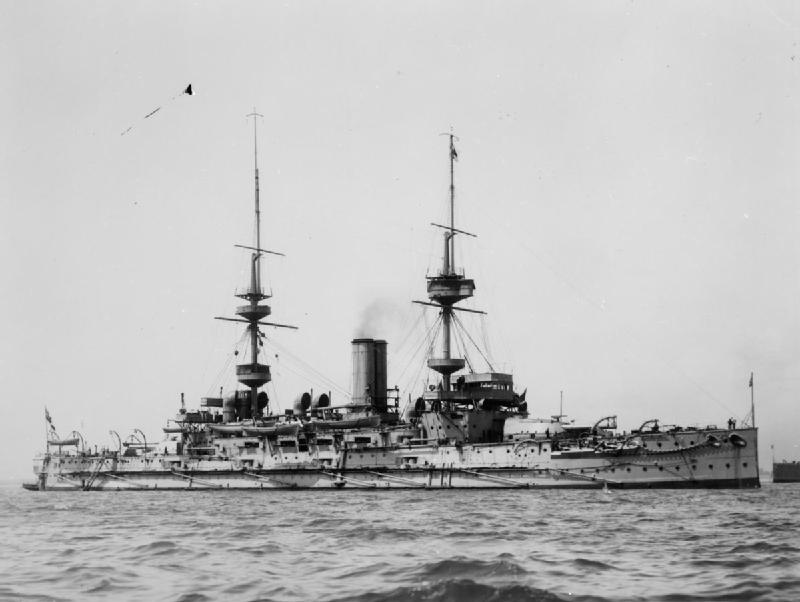 Majestic Class Battleships- Hms Illustrious HMS ILLUSTRIOUS at anchor, 1905.